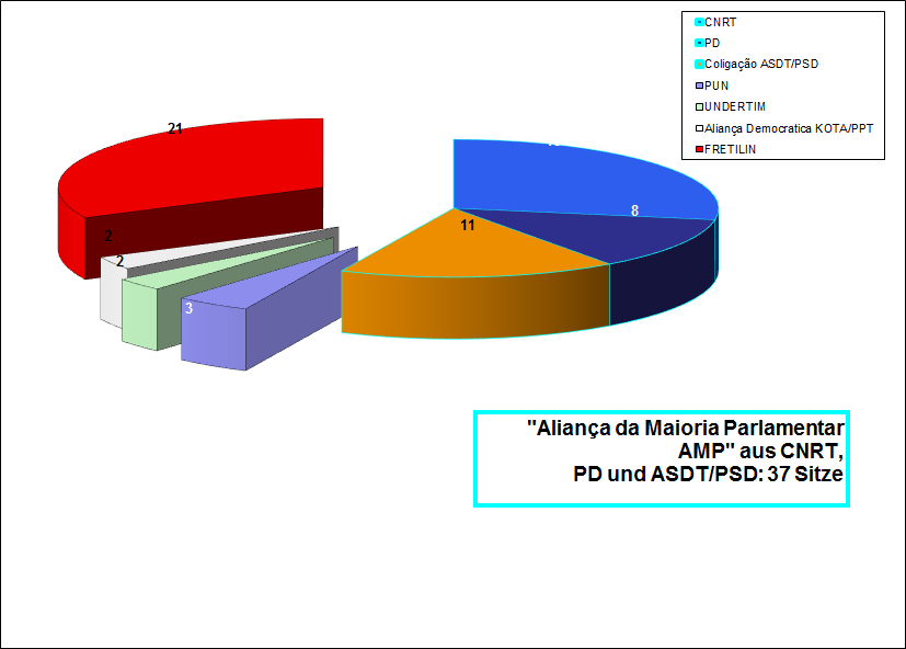 Parliament of East Timor after election in 2007